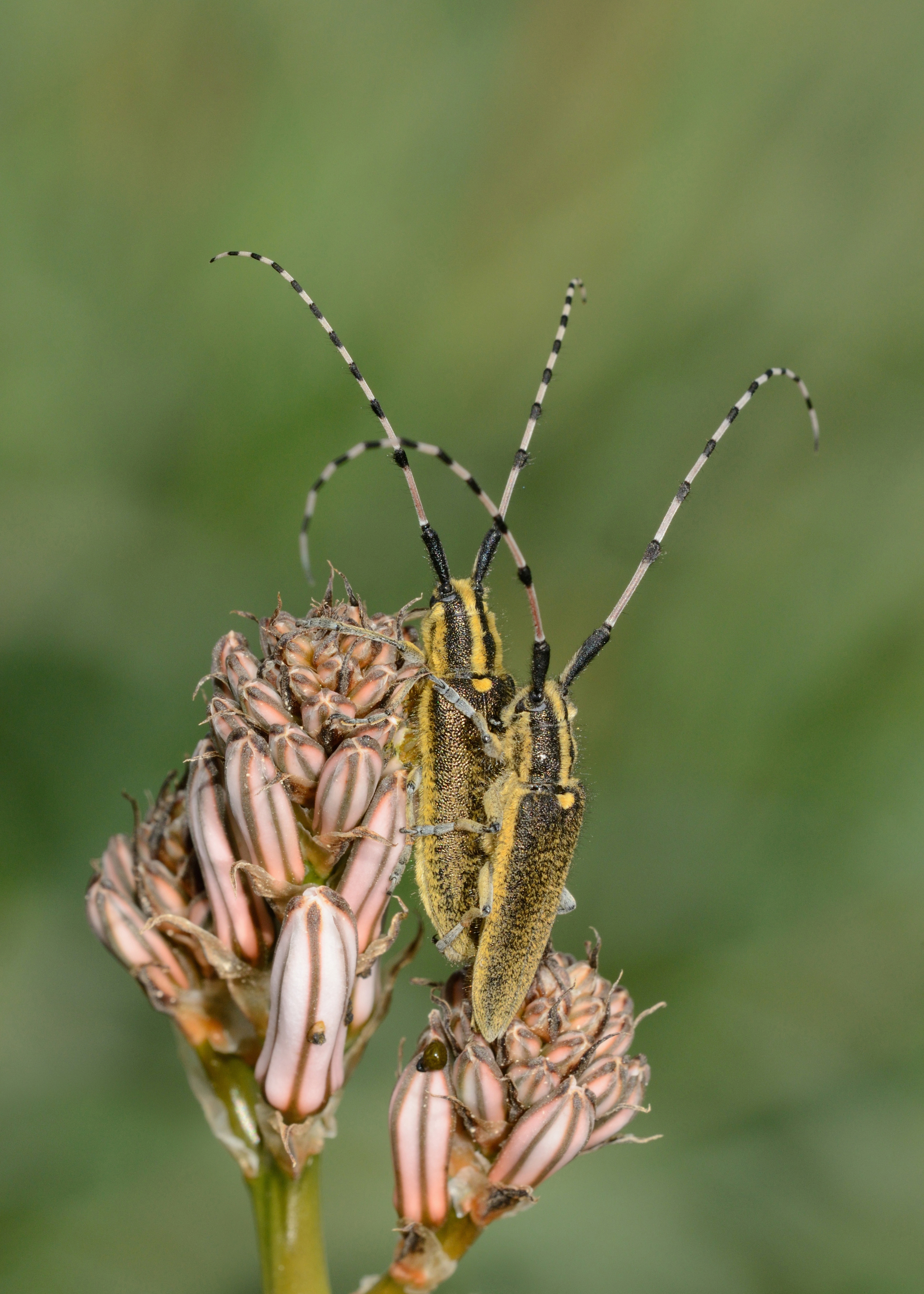 Agapanthia pustulifera Pic, 1905, copulation on flower buds of Asphodelus ramosus, Nahal Shikma Reserve, Israel, February 1, 2014.